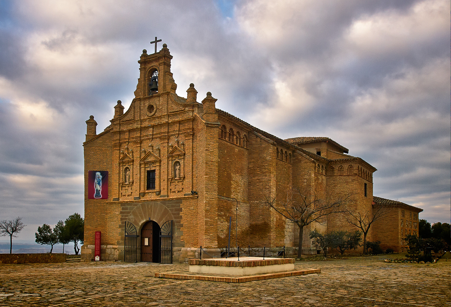 Virgen del Yugo church (Arguedas, Navarra, Spain)